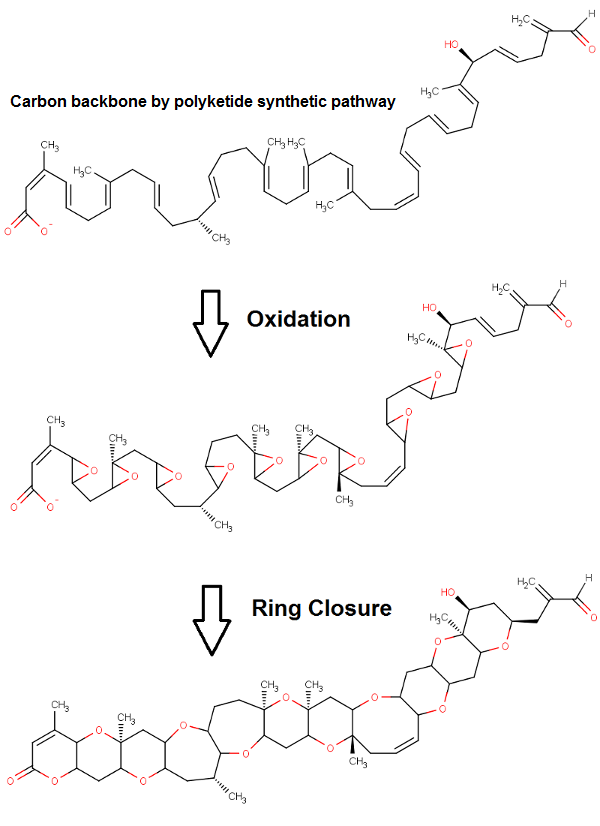 Oxidation and ring closure leading to BTX-B, starting from the basic carbon backbone